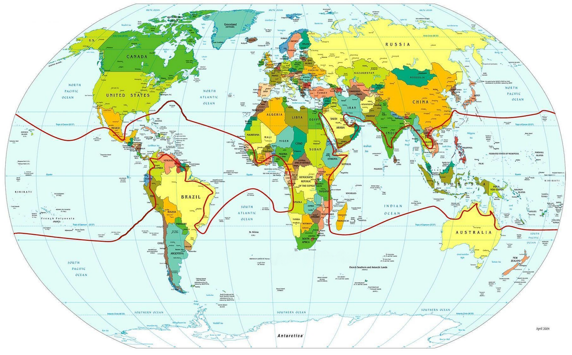 Coconut distribution